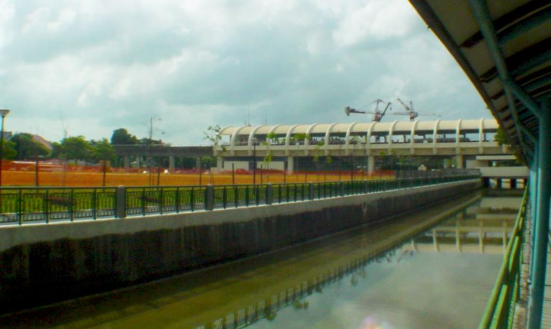 Kembangan MRT Station on the East West Mass Rapid Transit Line in Singapore, photographed from Astoria Park Condominium.